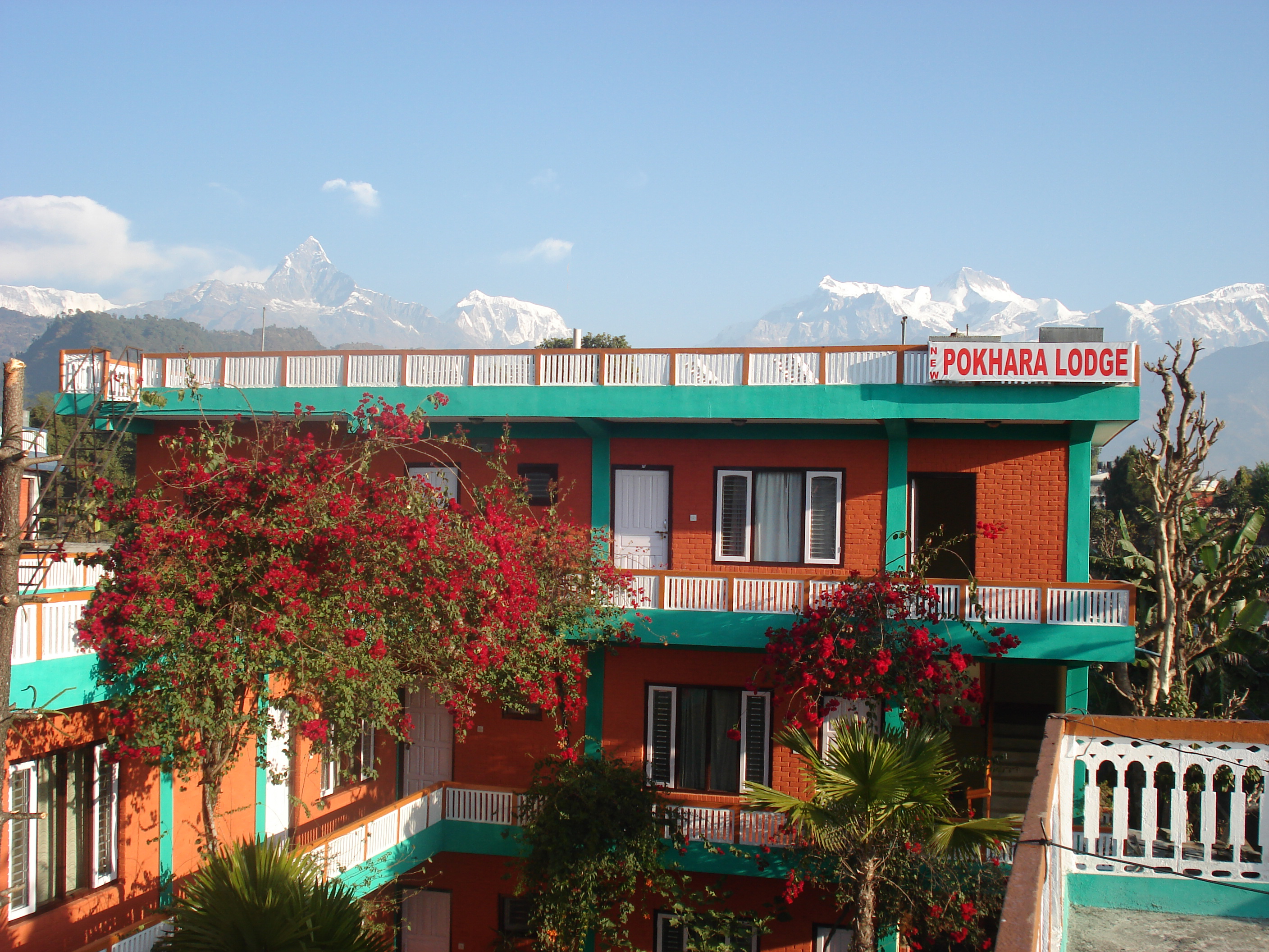 Mountain view from a Lodge in Pokhara.